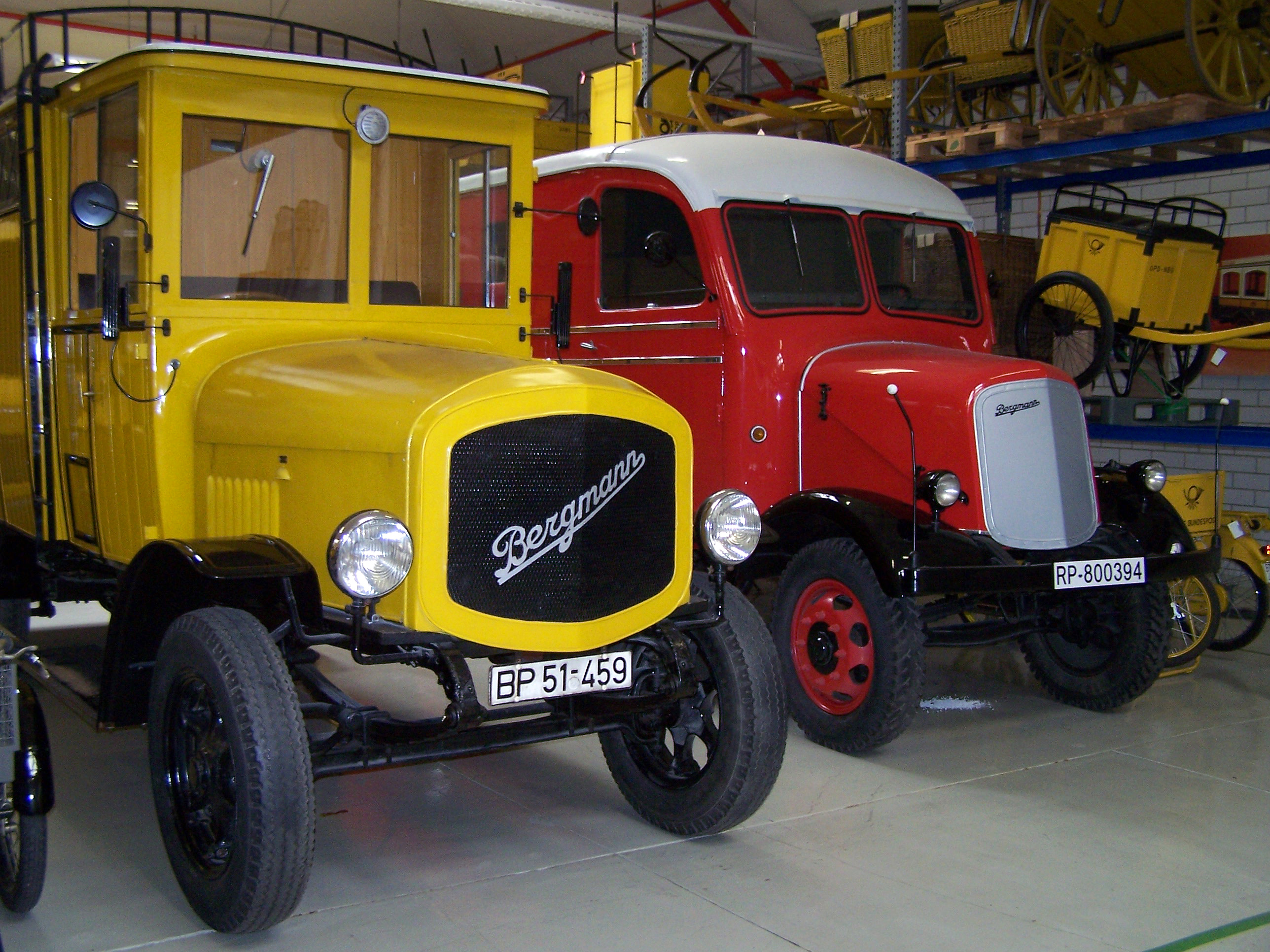 Bergmann parcel delivery van with electric motor of the 1920s, in the depot of the Museum for communication Frankfurt am Main in Heusenstamm